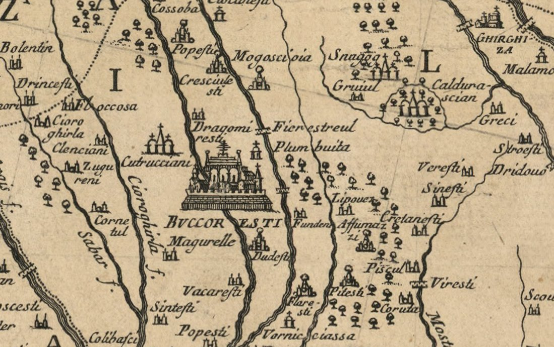 Detail of a 1718 map of Wallachia made by stolnic Constantin Cantacuzino, showing Bucharest and its surroundingsRomână: Detaliu al unei hărţi din 1718 a Ţării Româneşti, realizată de stolnicul Constantin Cantacuzino; detaliul reprezintă oraşul Bucureşti şi împrejurimile sale.